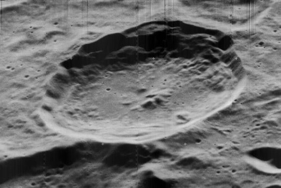 Oblique view of Dryden, on the far side of the moon, facing west.